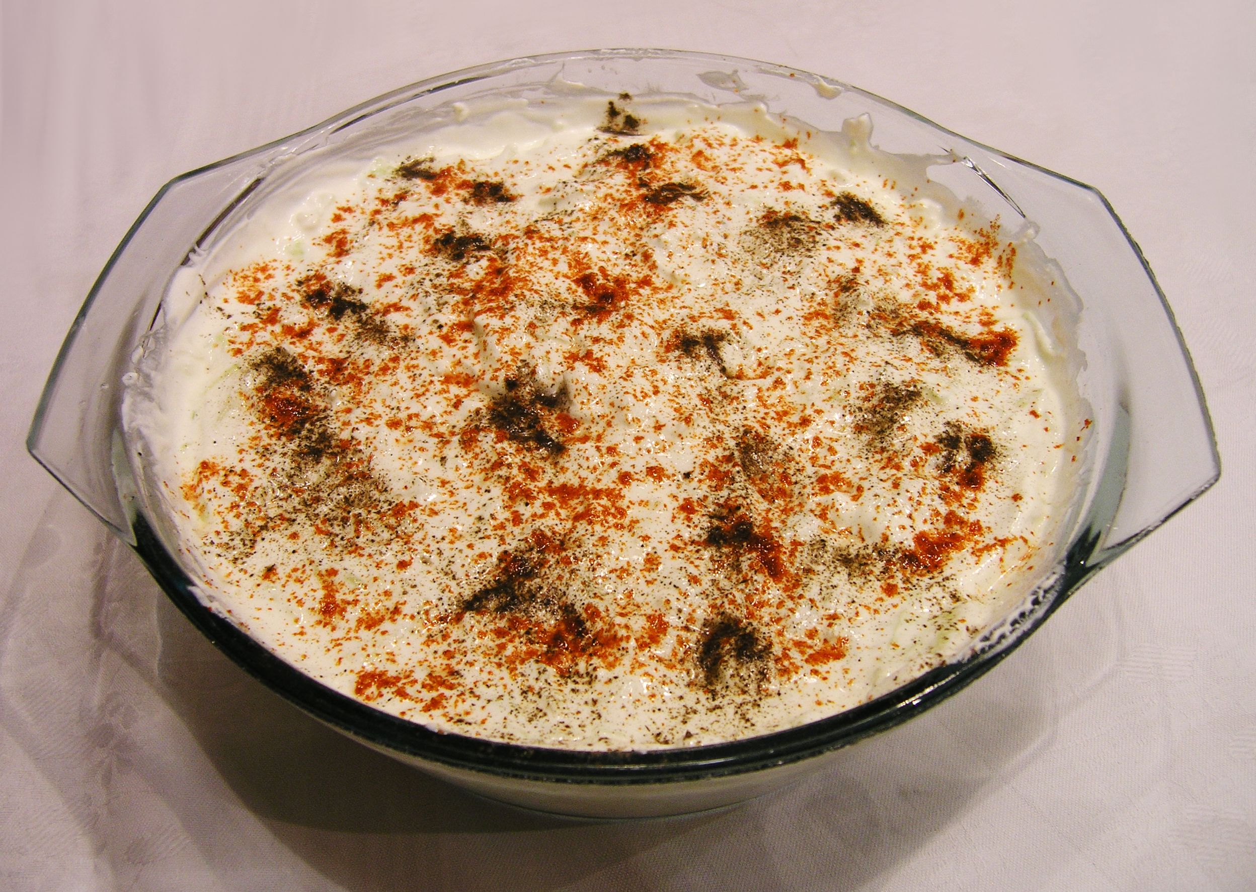 Greek Tzatziki salade. Српски (ћирилица): Грчка салата дзадзики.